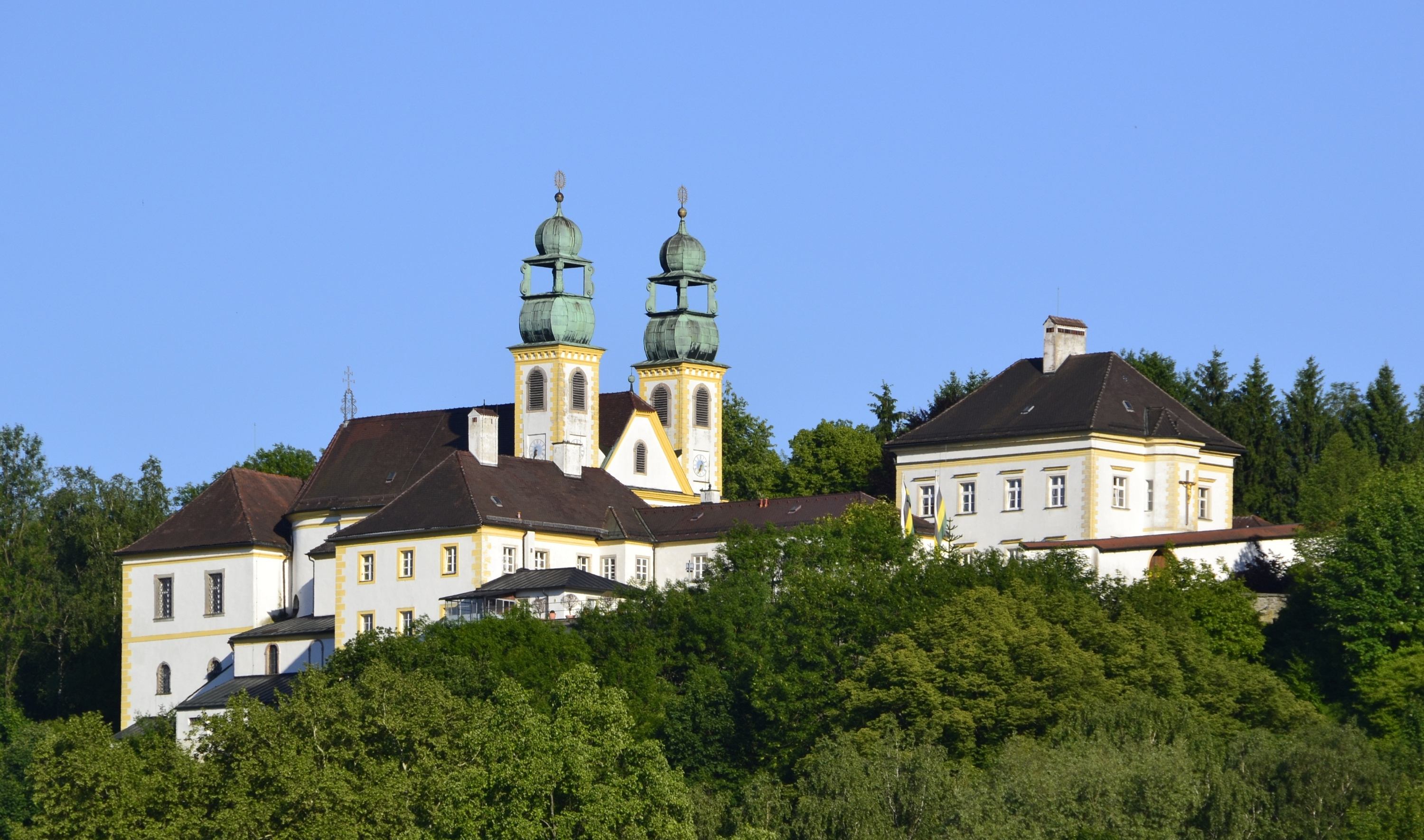 Catholic pilgrimage church and Capuchin monastery Mariahilf in Passau, Germany